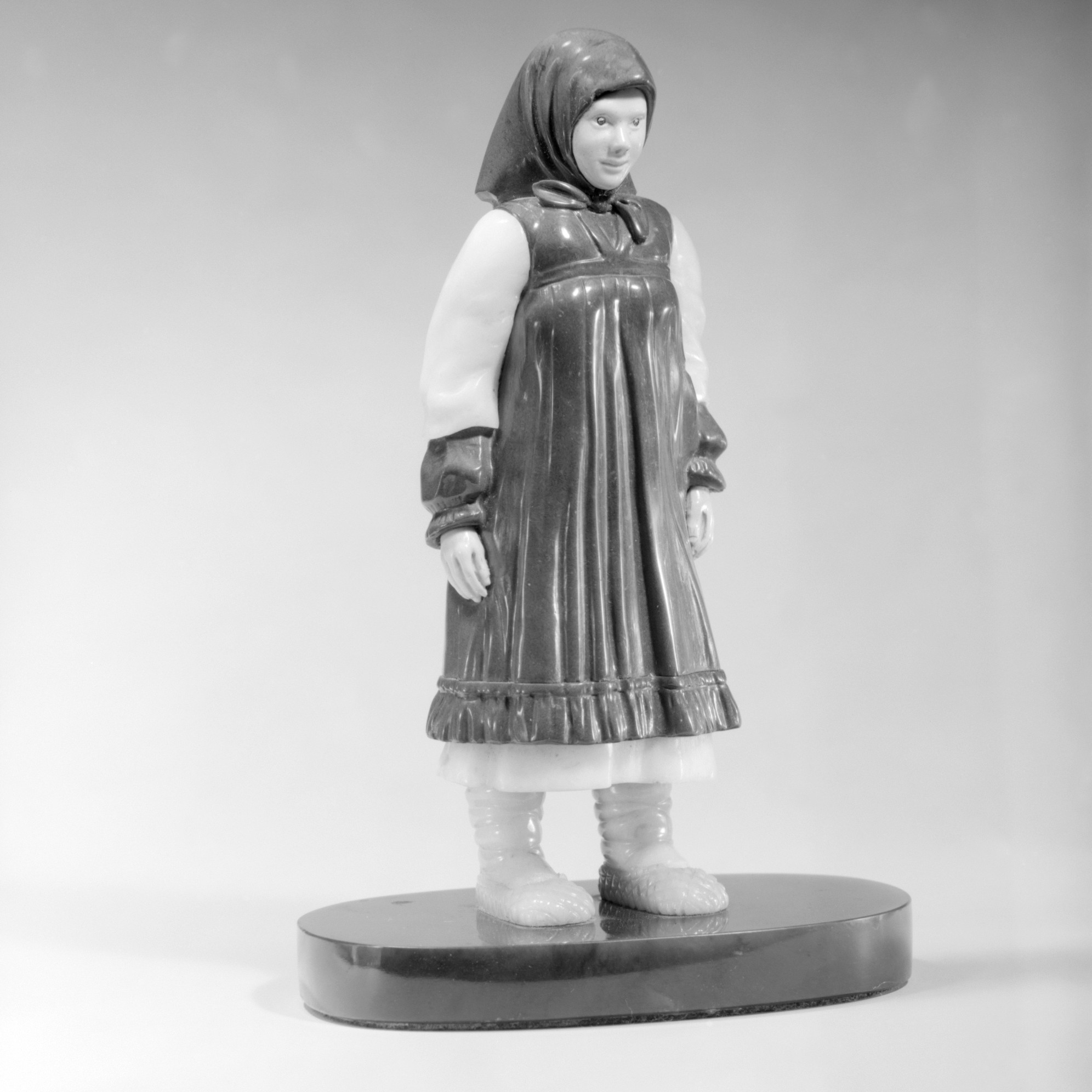 Russian, St. Petersburg; Figure; Lapidary Work